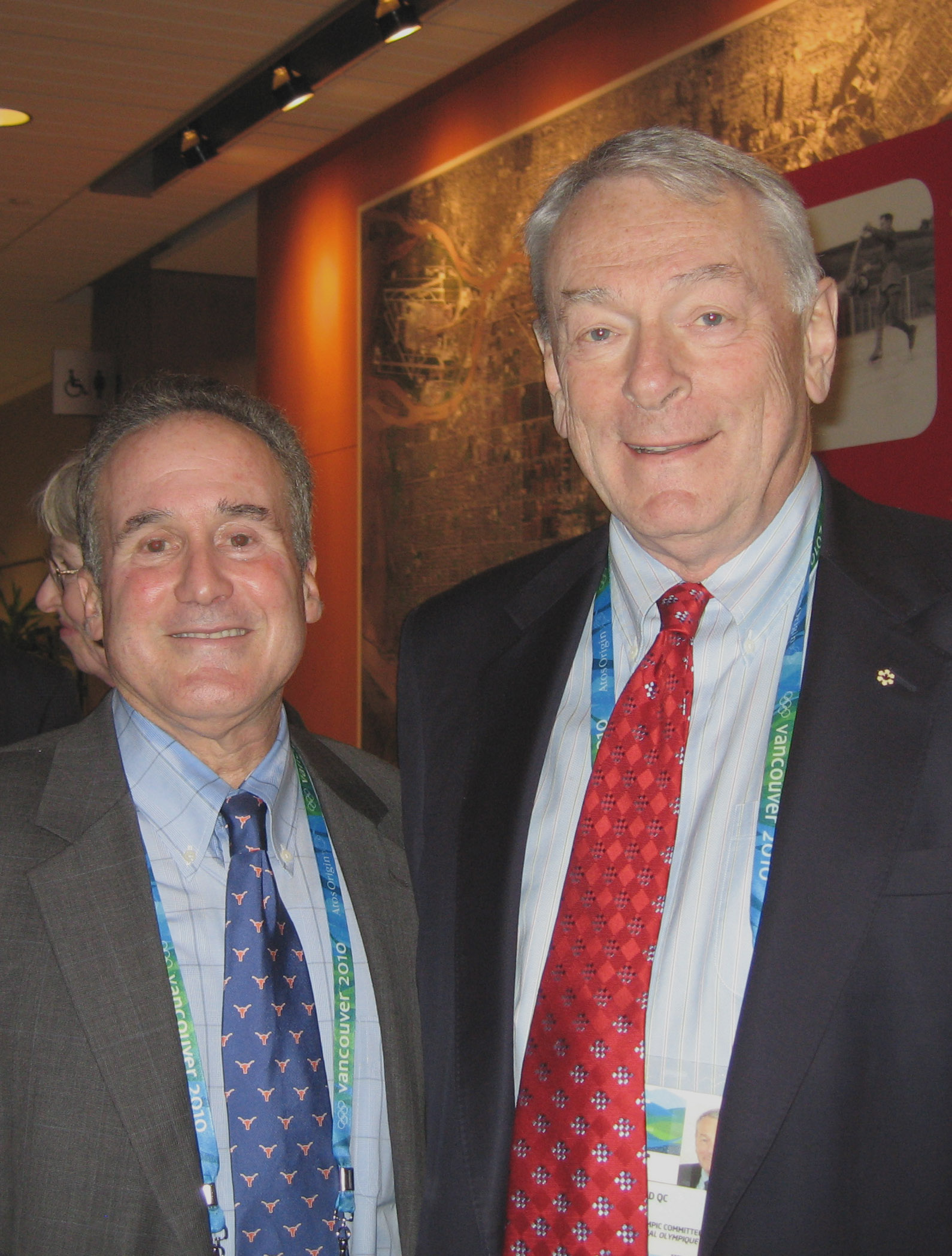 Dr. Steven Ungerleider, member of the United States Olympic Committee Sport Psychology Registry, at the presentation of the humanitarian award to Dick Pound, member of the International Olympic Committee (IOC) since 1978 and Chairman of the World Anti-Doping Agency since 1999. The presentation took place February 13 at Richmond City Hall.